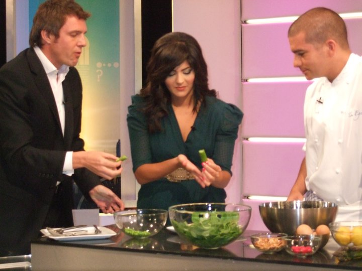 I took this picture and I'd really appreciate it if no-one came along and deleted it like they did to my last pictures, because they think they know everything...